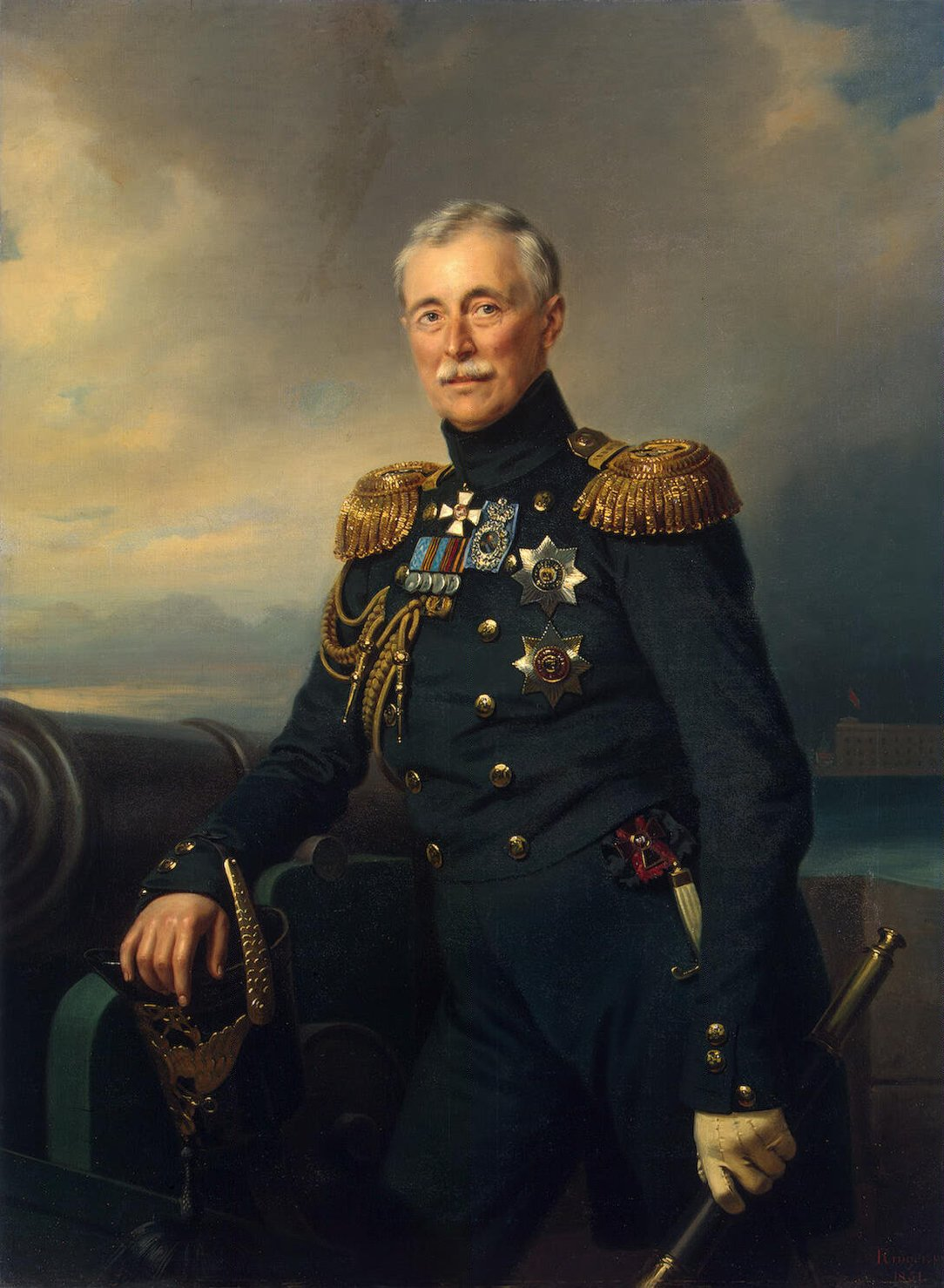 Alexander Sergeevich Menshikov (1787—1869) russian general by Franz Krüger 1850 S-Peterburg, State Hermitage